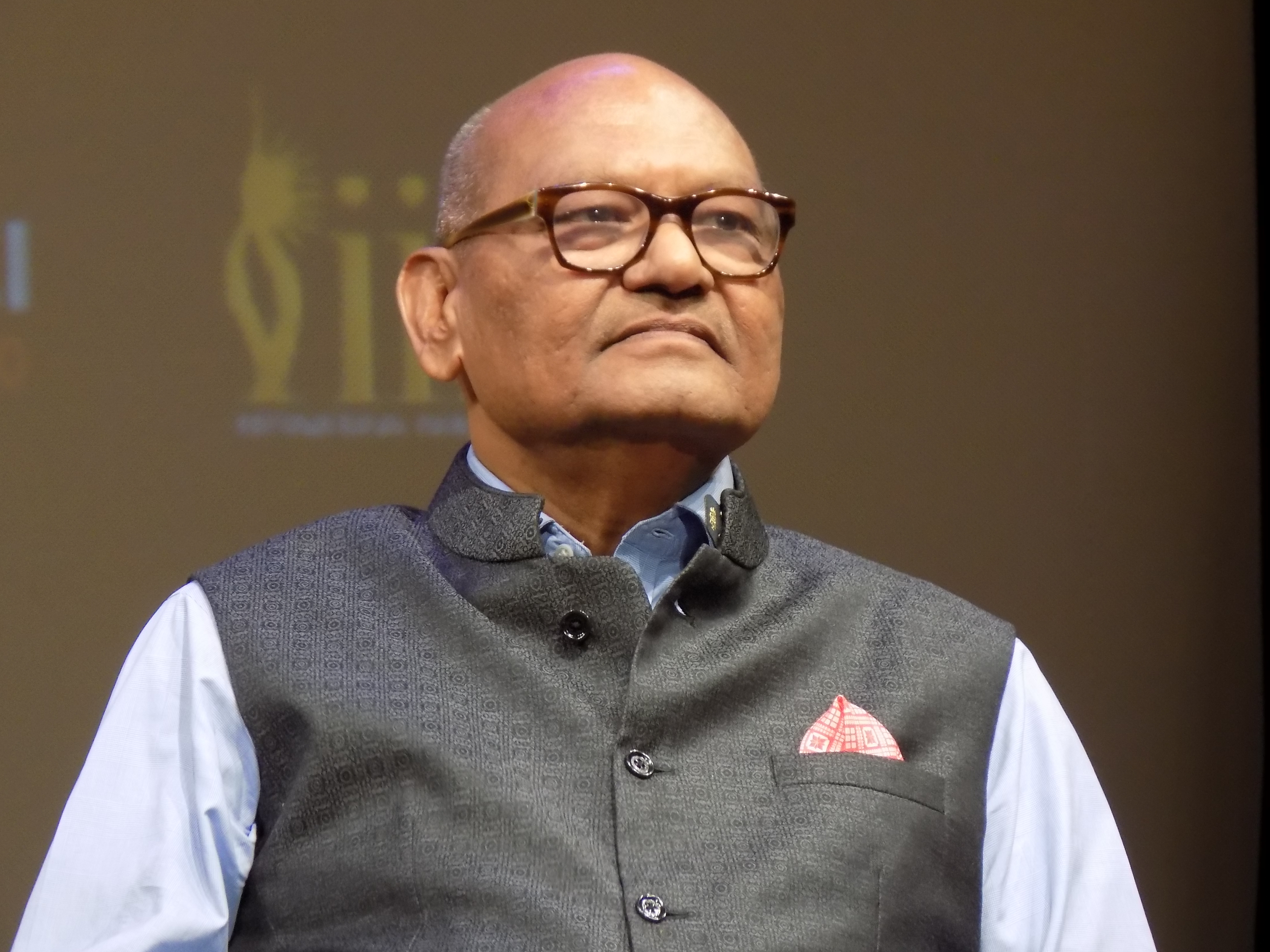 Anil Agarwal at the 2017 FICCI - IIFA Global Business Forum, which Federation of Indian Chambers of Commerce & Industry and Q655089International Indian Film Academy Awards present.